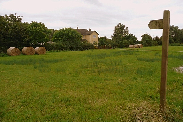 Clifton Common at Goldcliff The place to store bales, obviously.